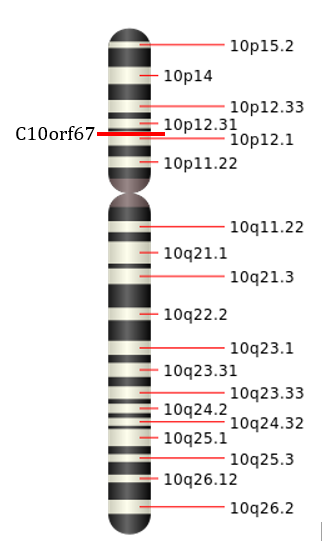 Same as another chromosome, but with a specific protein (C10orf67) marked in its approximate location on the gene